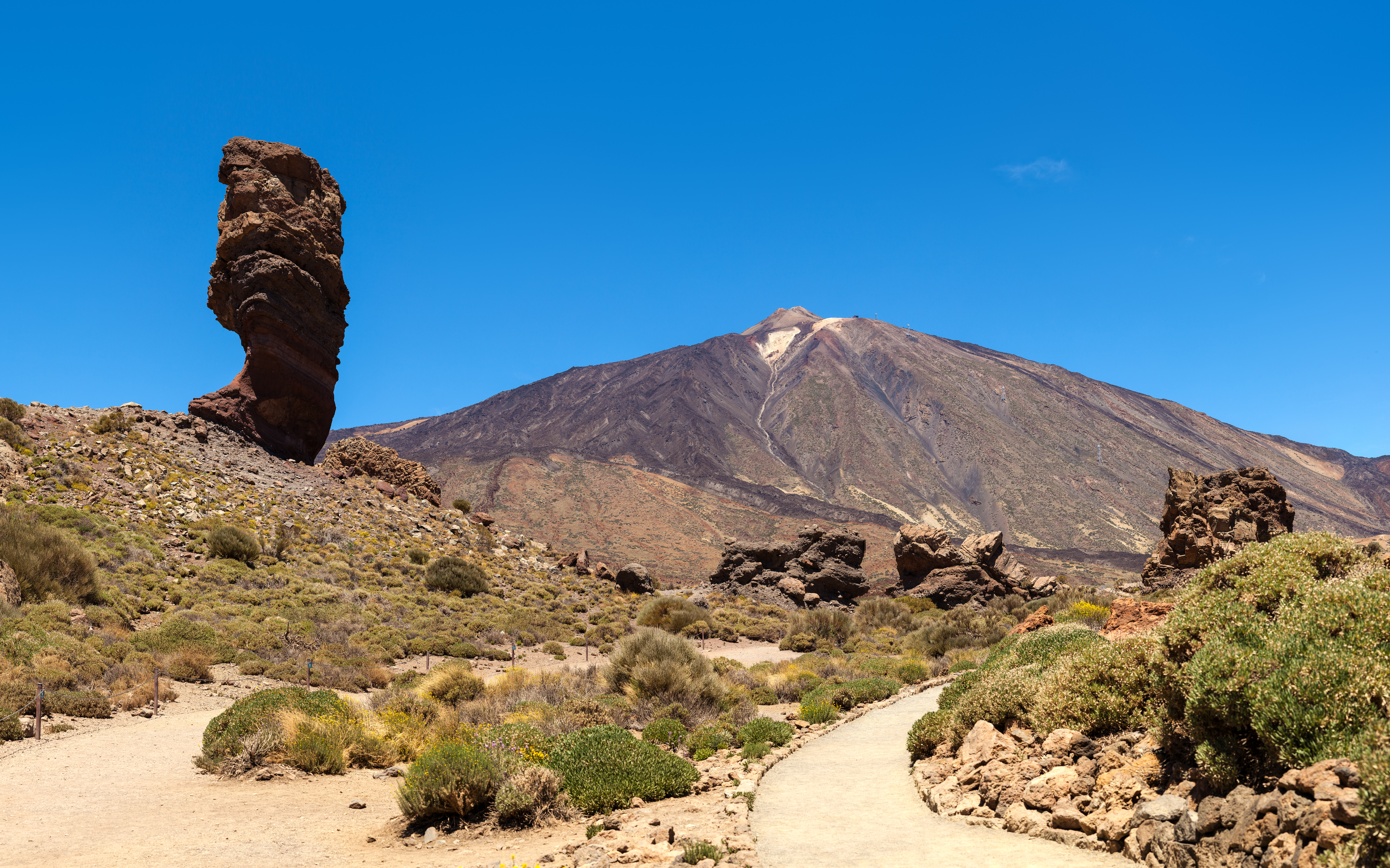 Roque Cinchado and Teide in Tenerife, Spain